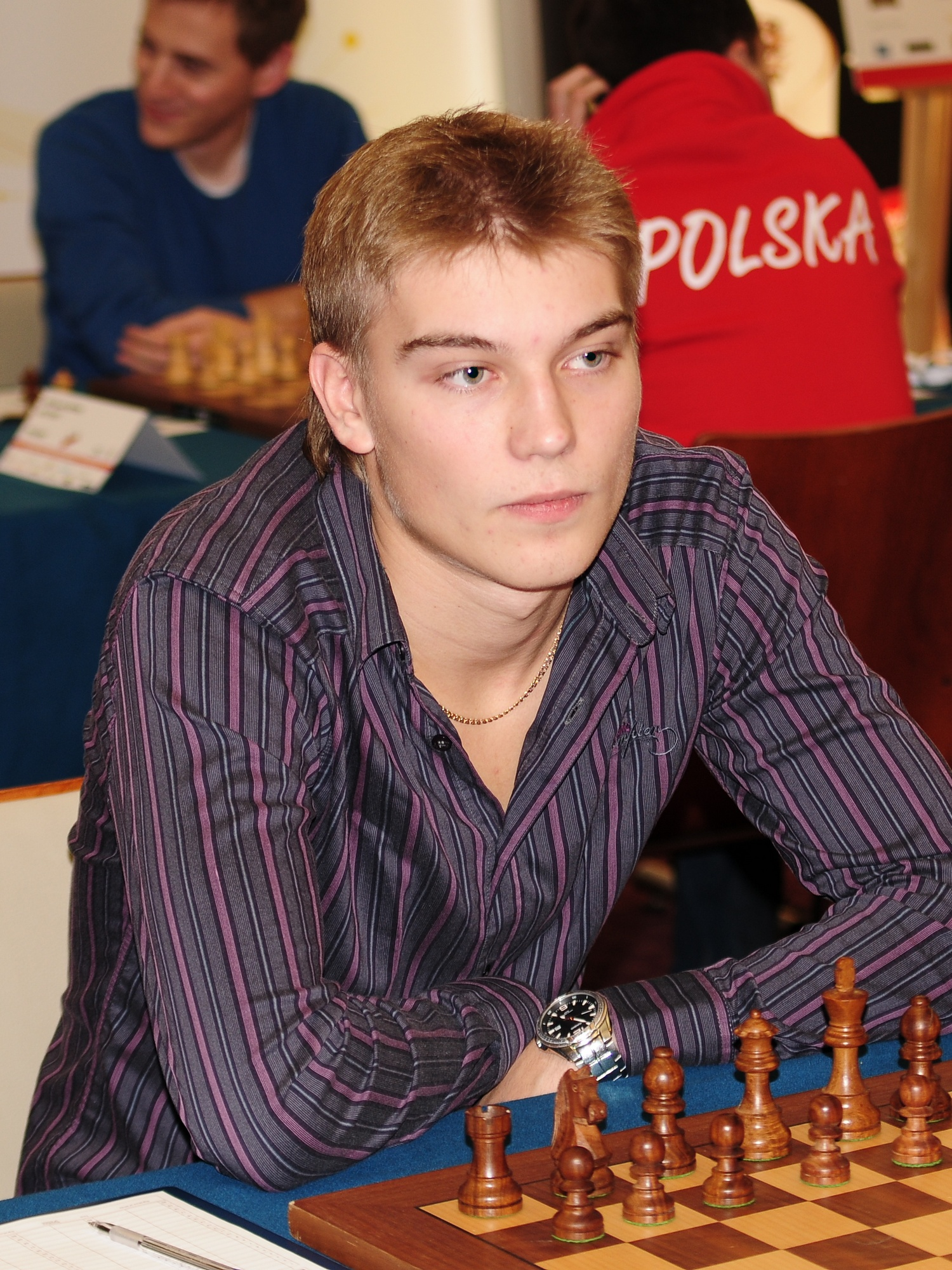 GM Vladislav Kovalev, European Chess Team Championship Warsaw 2013